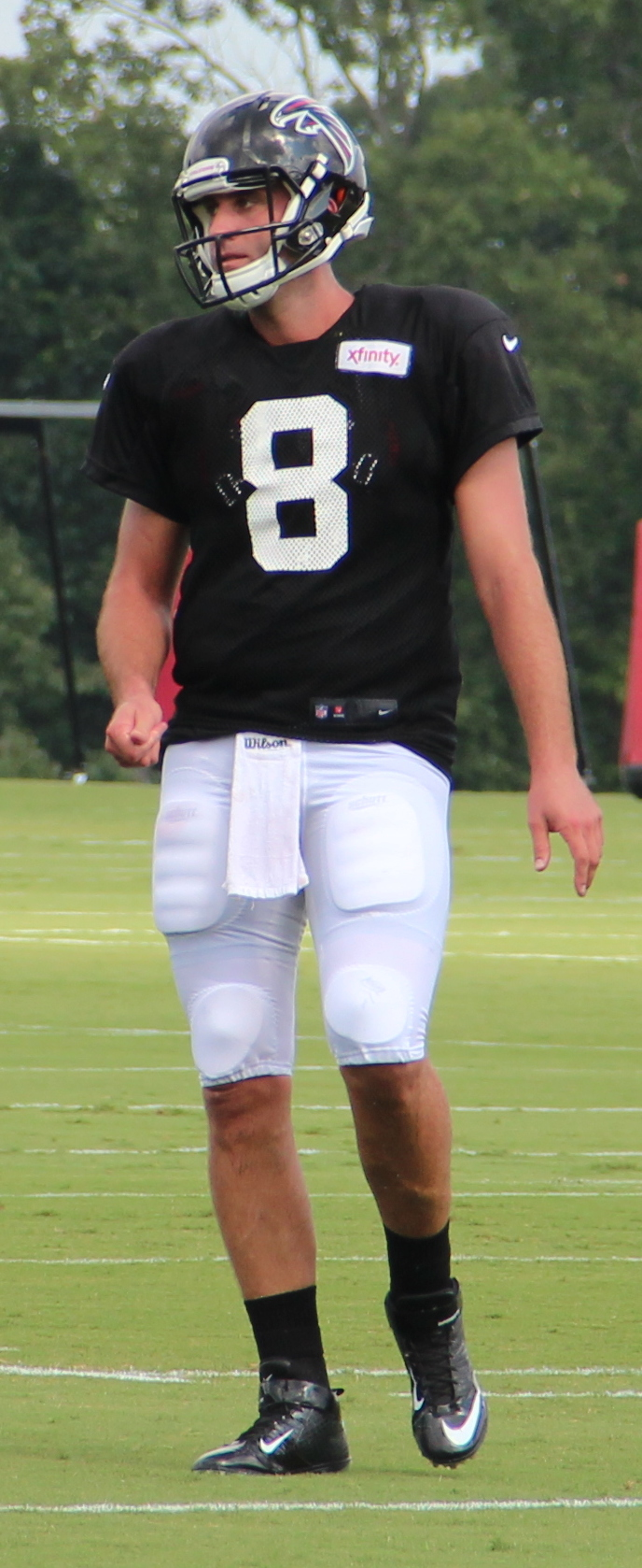 Matt Schaub at Falcons training camp